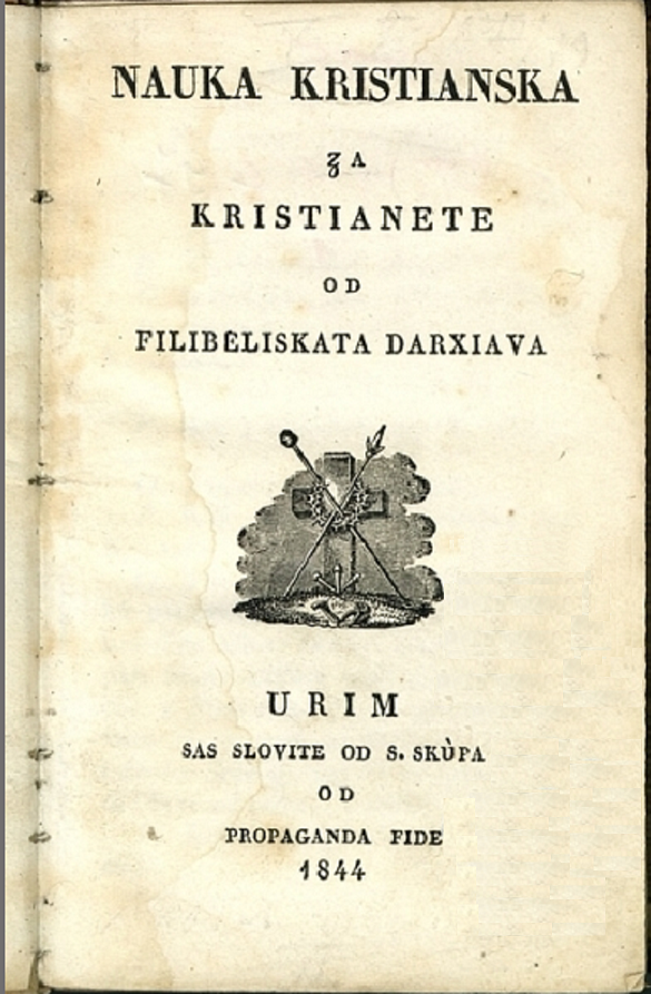 Prayer for the Christians of the Plovdiv State